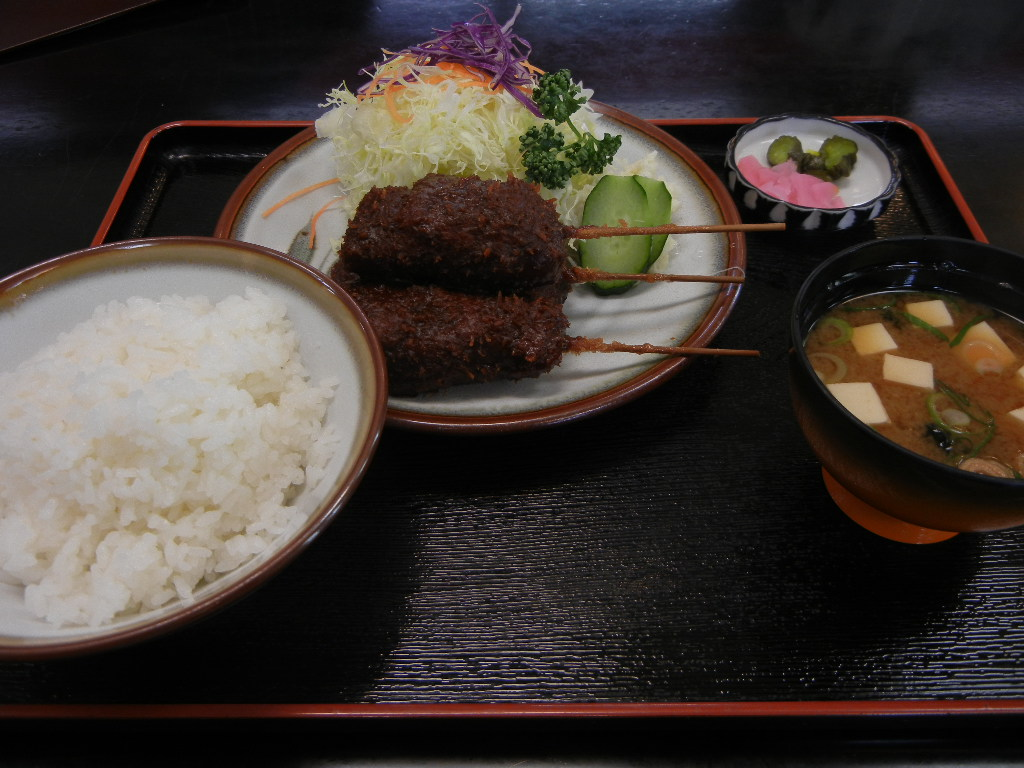 Miso_kushikatsu. 新安城にあるとんかつ屋「稲穂」の味噌串カツ, Anjo.